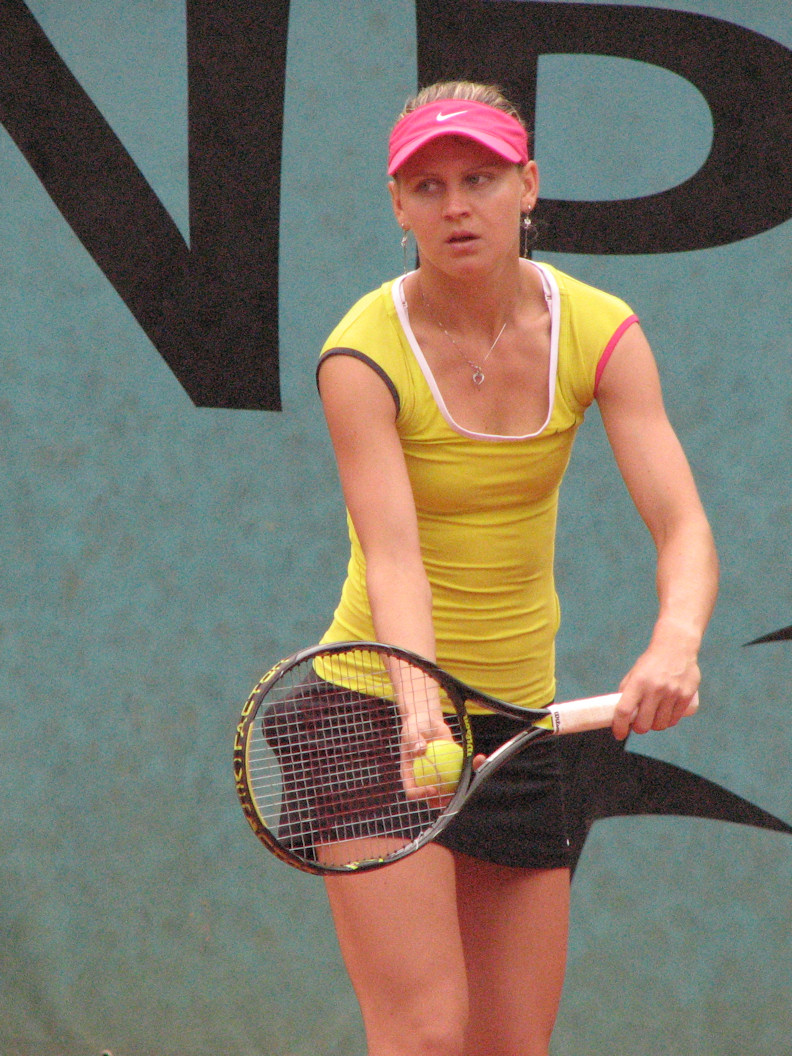 Lucie Safarova at the French Open (2009)